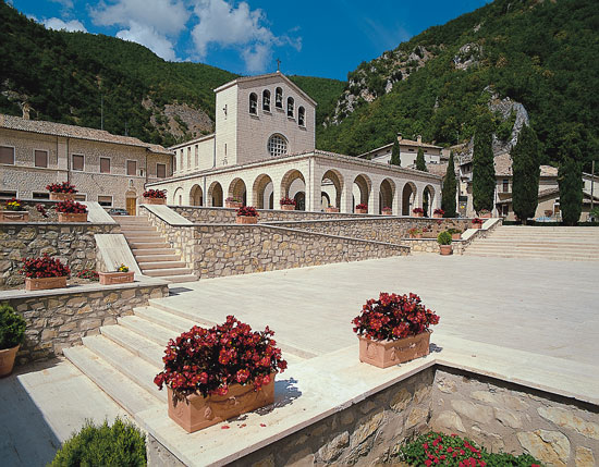 Saint Rita's sanctuary at Roccaporena.